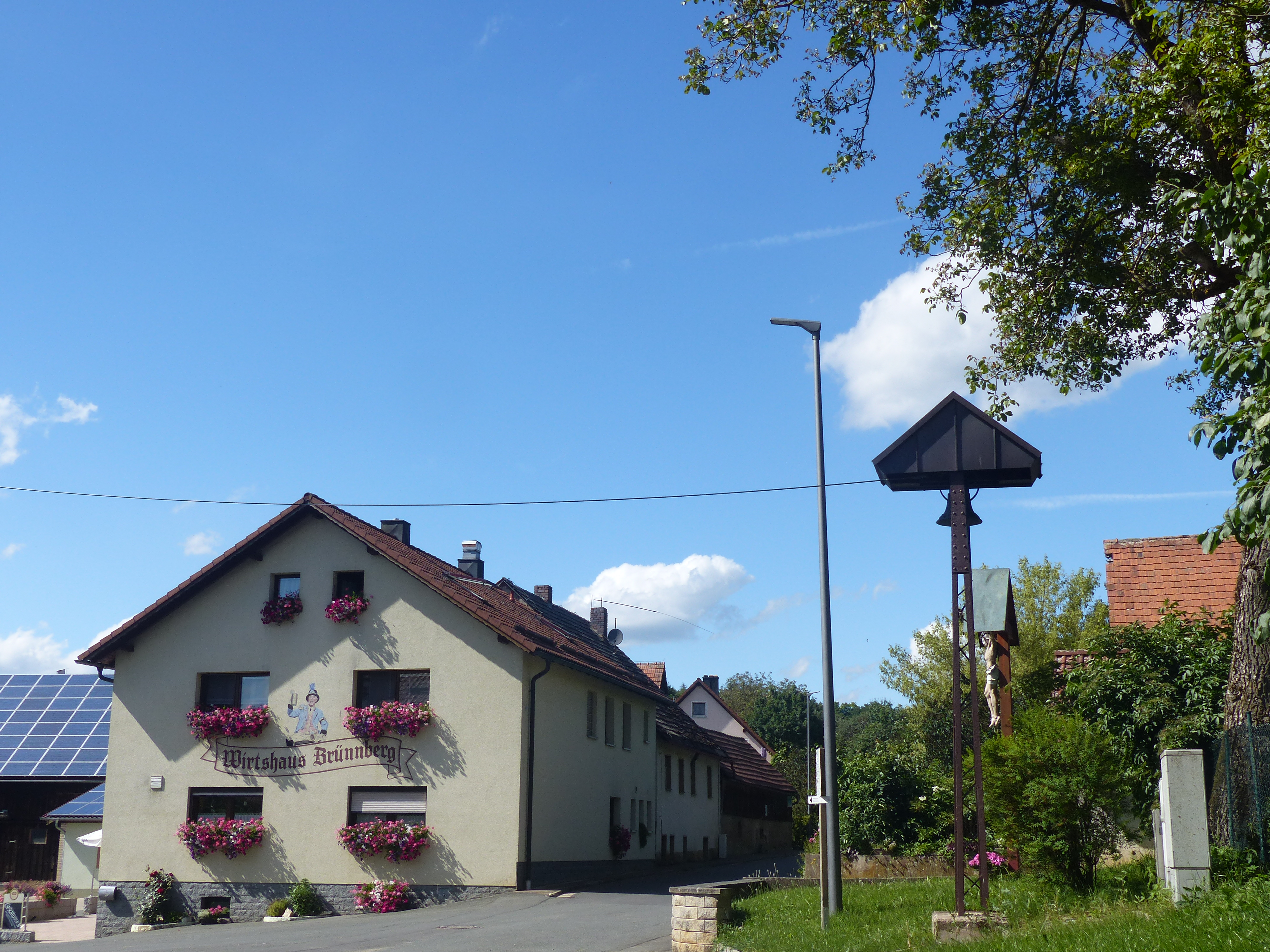 The hamlet Brünnberg, a district of the municipality of Ahorntal.